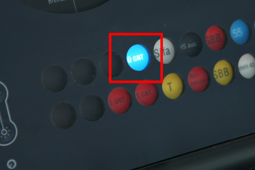 Control light of the tilting technology on the driver's cab on an ICE-T high-speed train.